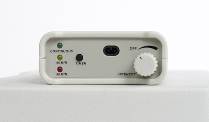 Control panel for CES Ultra, Cranial Electrotherapy Stimulation device, s